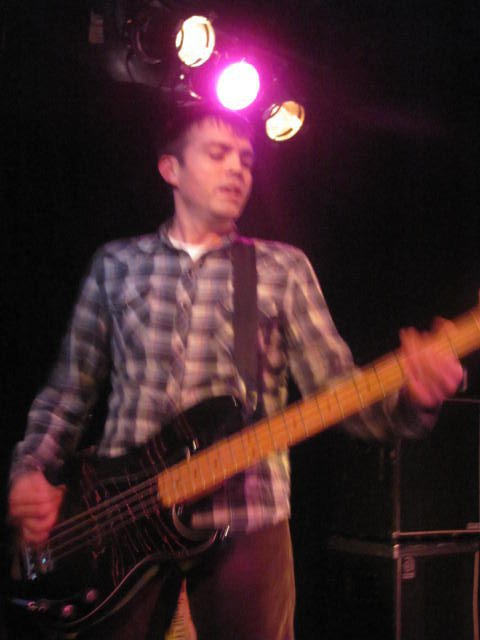 Rick Uncapher performing with Noise By Numbers at the Beat Kitchen in Chicago